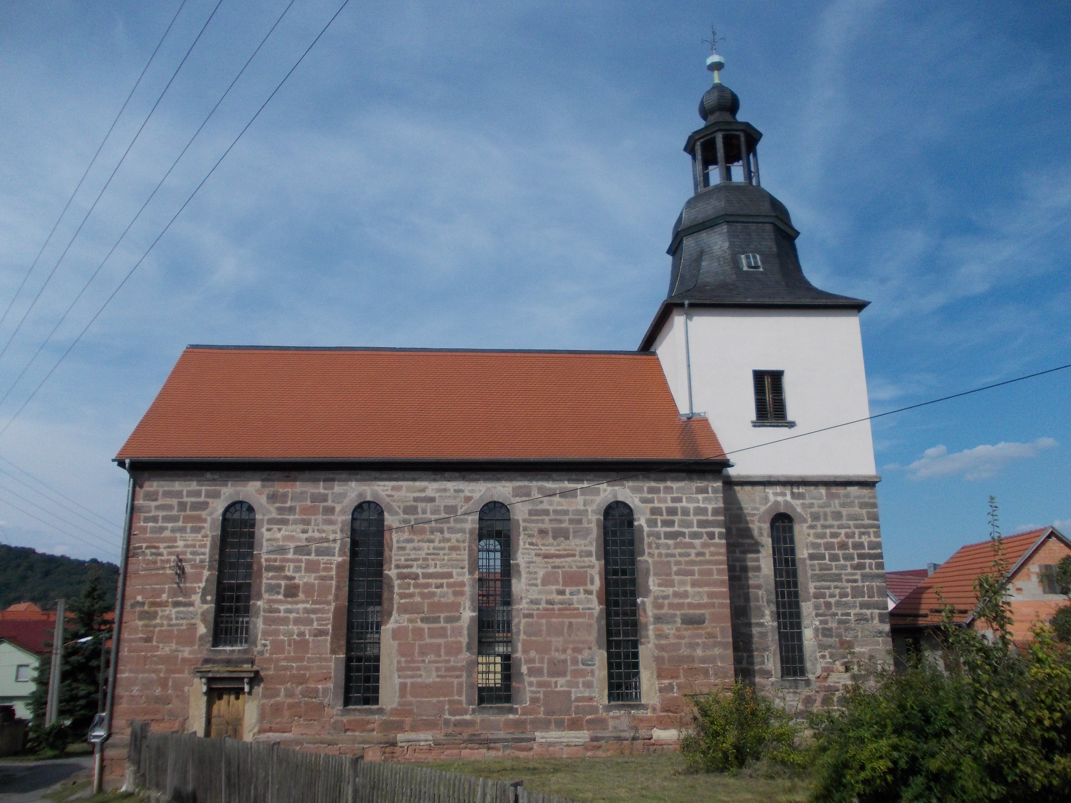 St. Peter and Paul's Church in Kleineutersdorf (district: Saale-Holzland-Kreis, Thuringia)